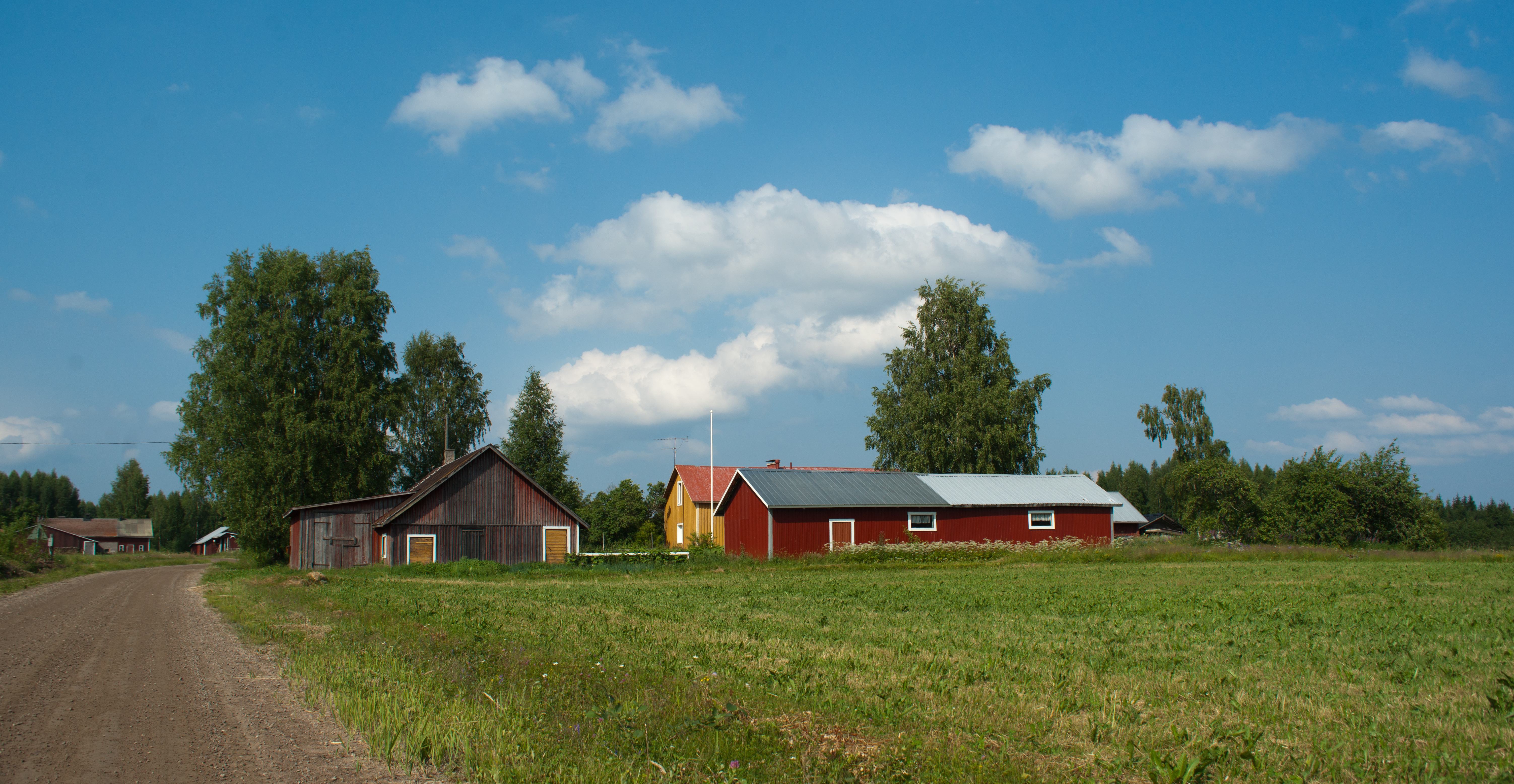 Pajumäentie road (local road 16659) in Pajumäki, Joutsa, Finland.